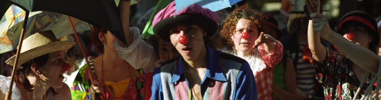 Group of street performers at parata par tòt, Bologna (Italy).